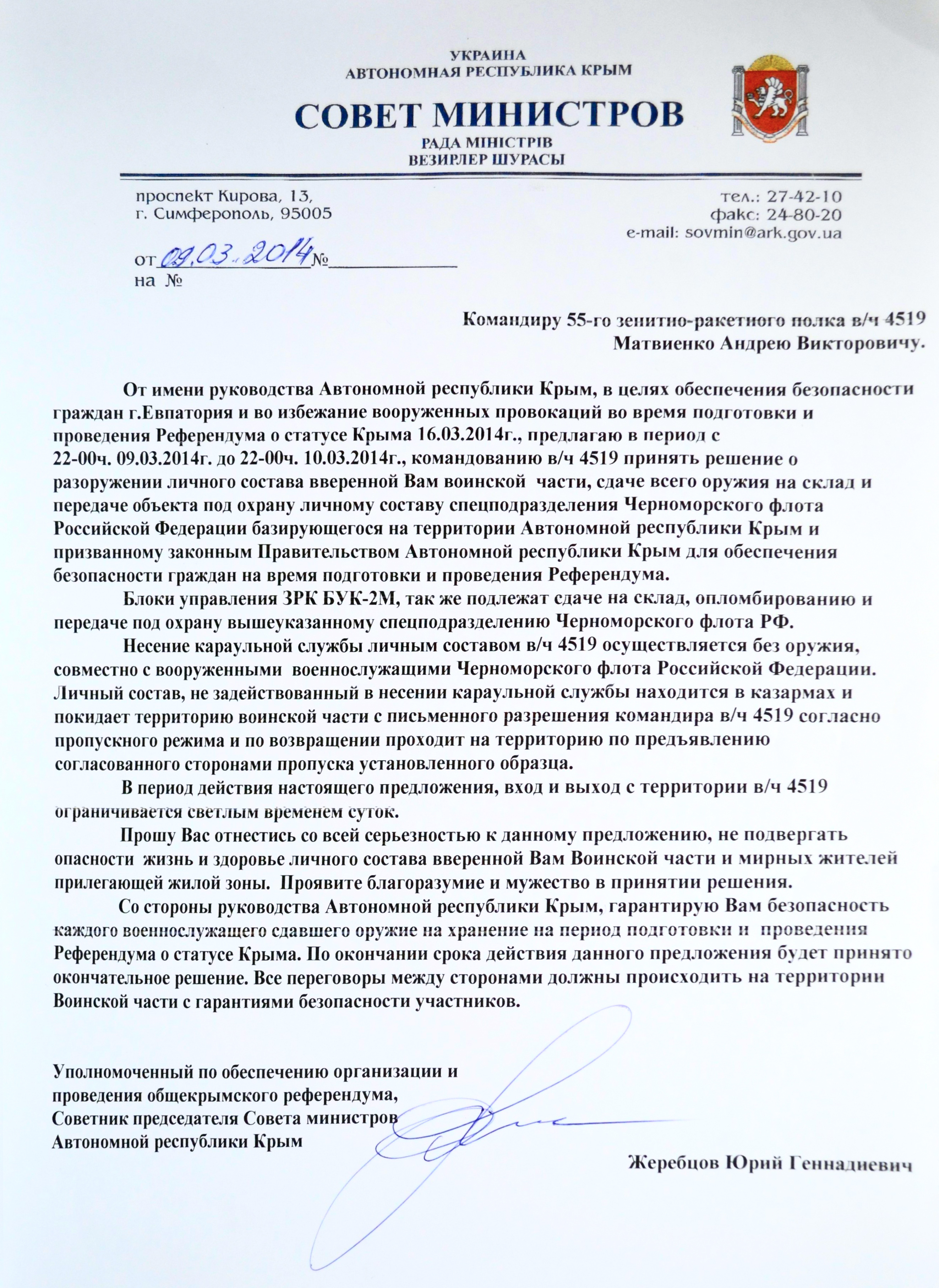 55th Anti-Aircraft Artillery regiment in Yevpatoria during the 2014 Crimean crisis.